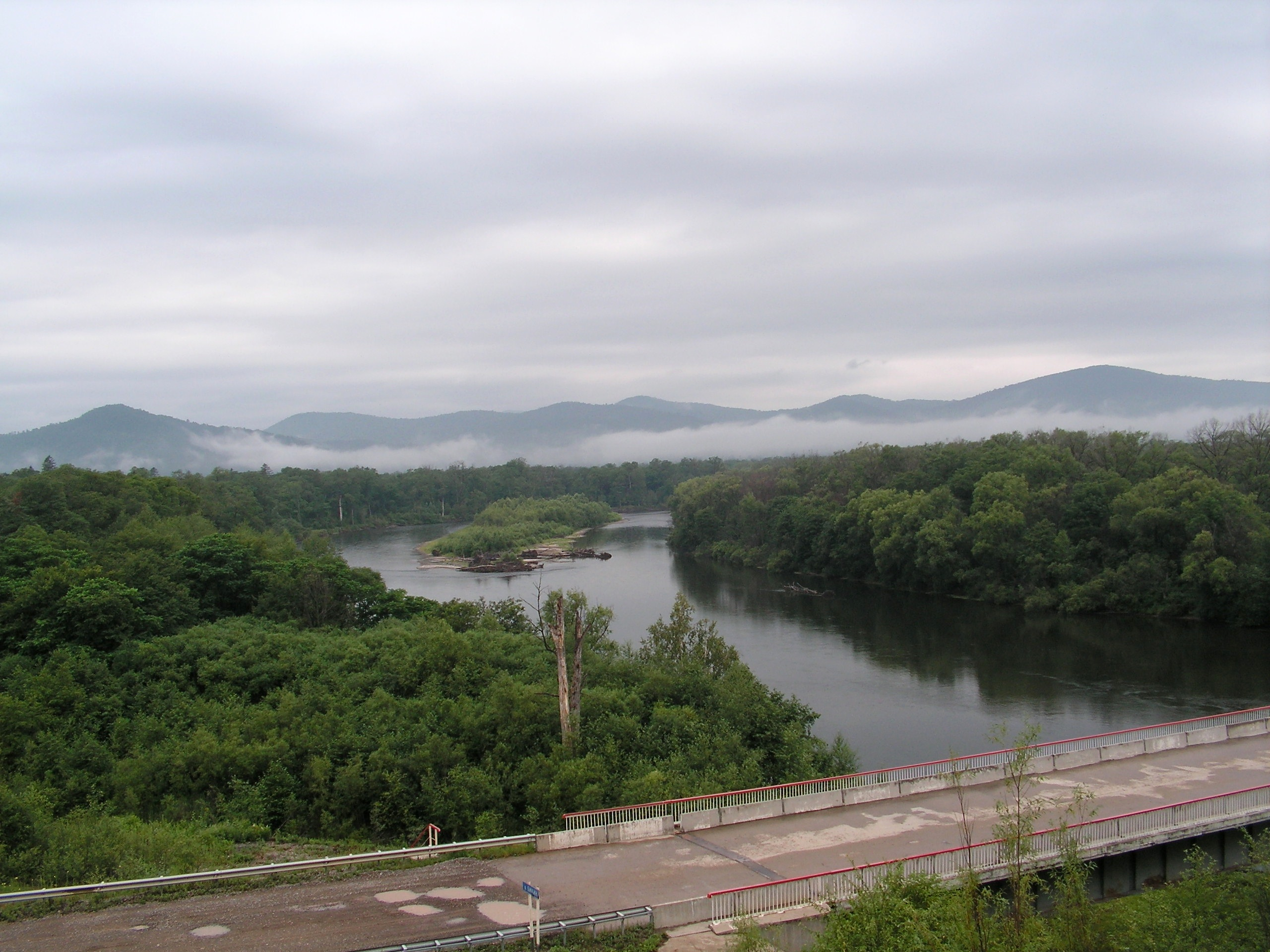 Bikin river